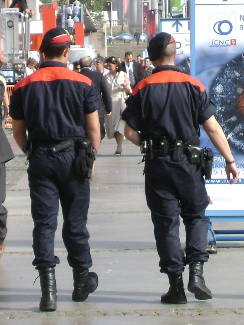 Foot patrol of special ARRO unit. Patrulla ARRO de peu.